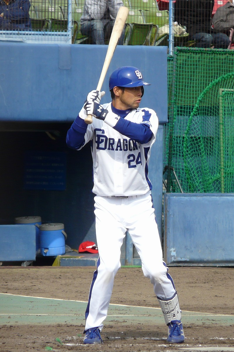 Hidenori Kuramoto, outfielder of the Chunichi Dragons, at Nagoya Baseball Stadium.